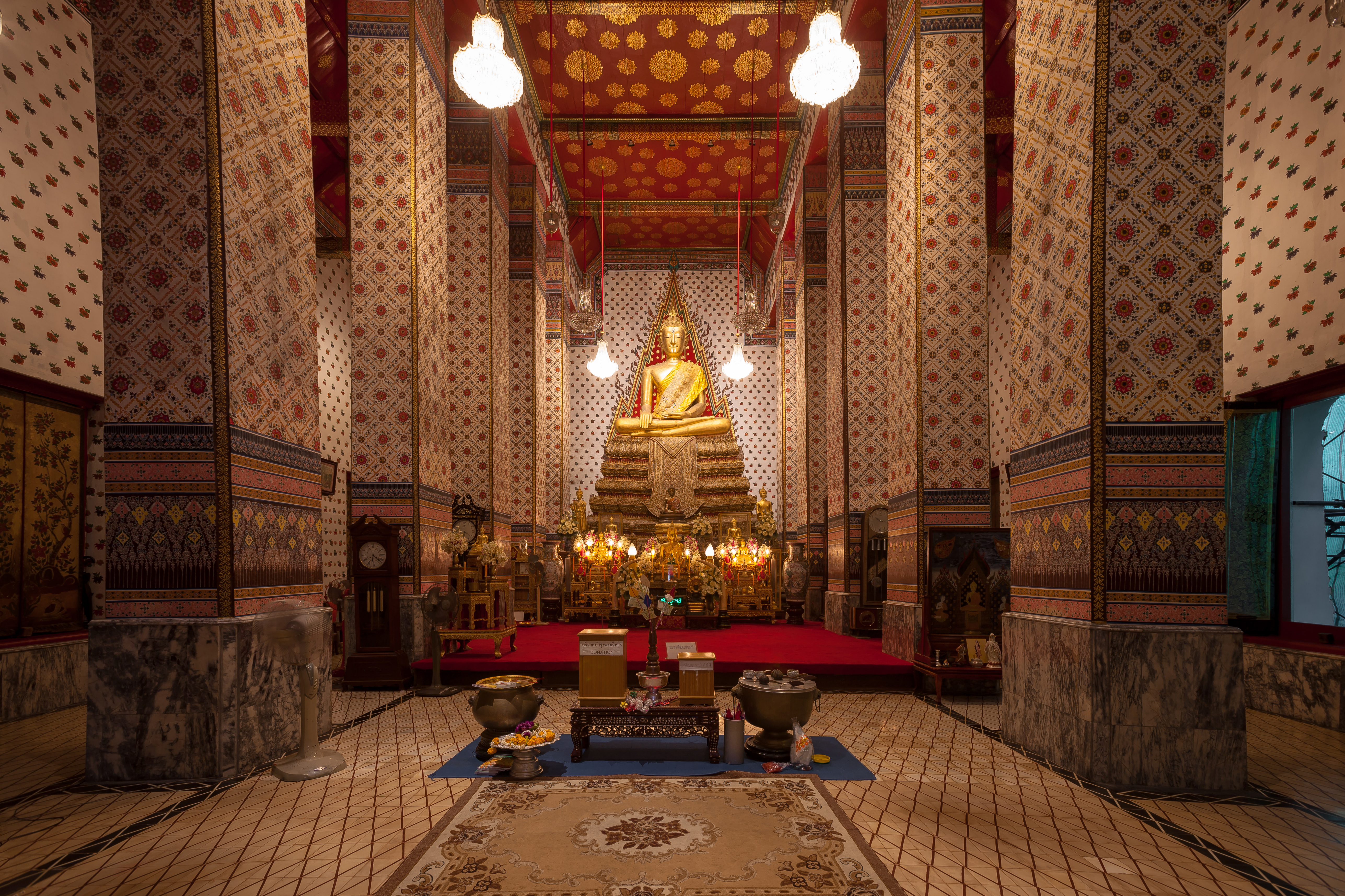 Phra Puttha Chum Phu Nuch at Wat Arun.